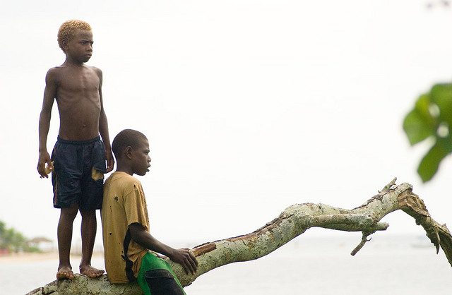 Two boys from Mele village (Efate Island, Vanuatu) embark on the day's newest adventure.